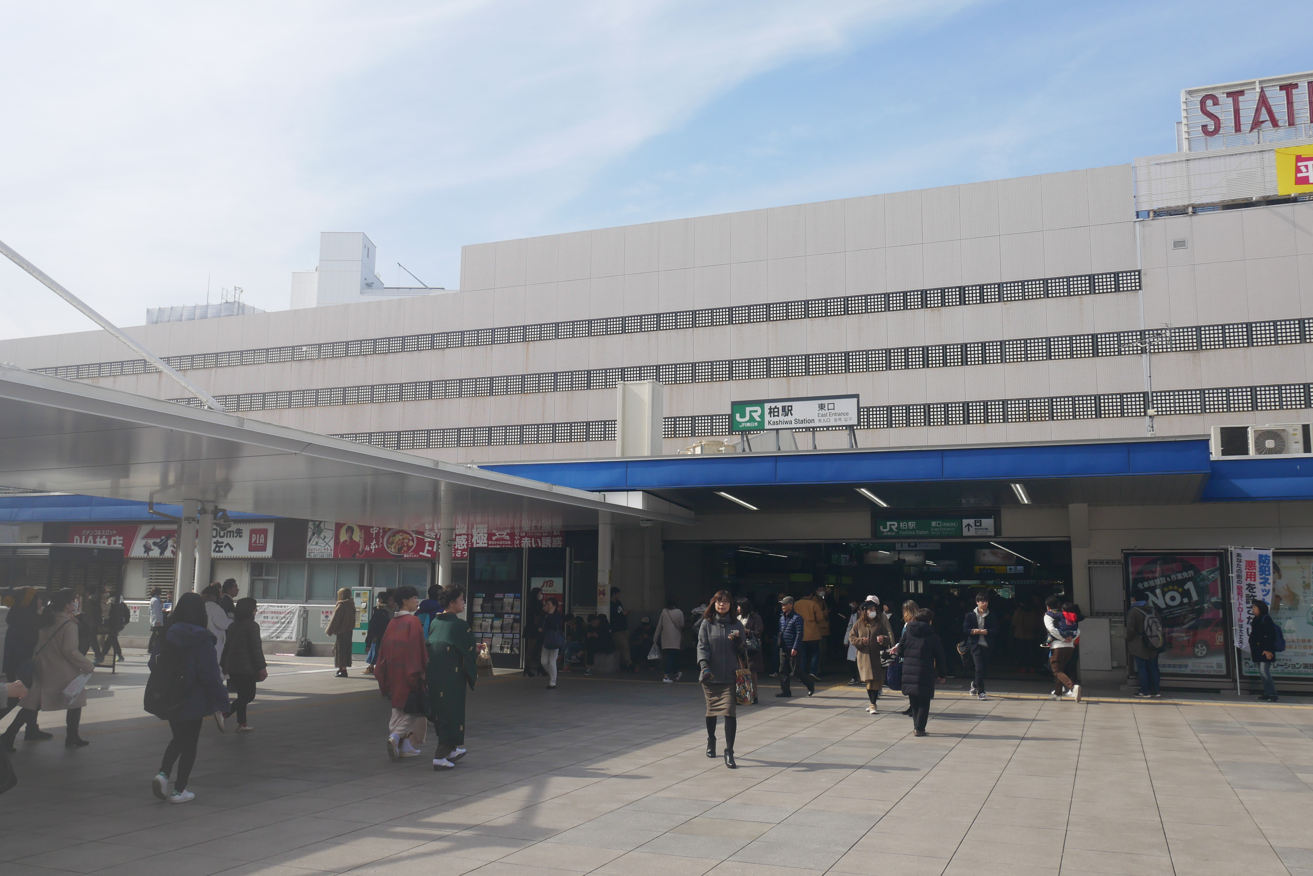 柏駅の東口 (Kashiwa Station East exit) Panasonic Lumix DMC-GX7 Mark II